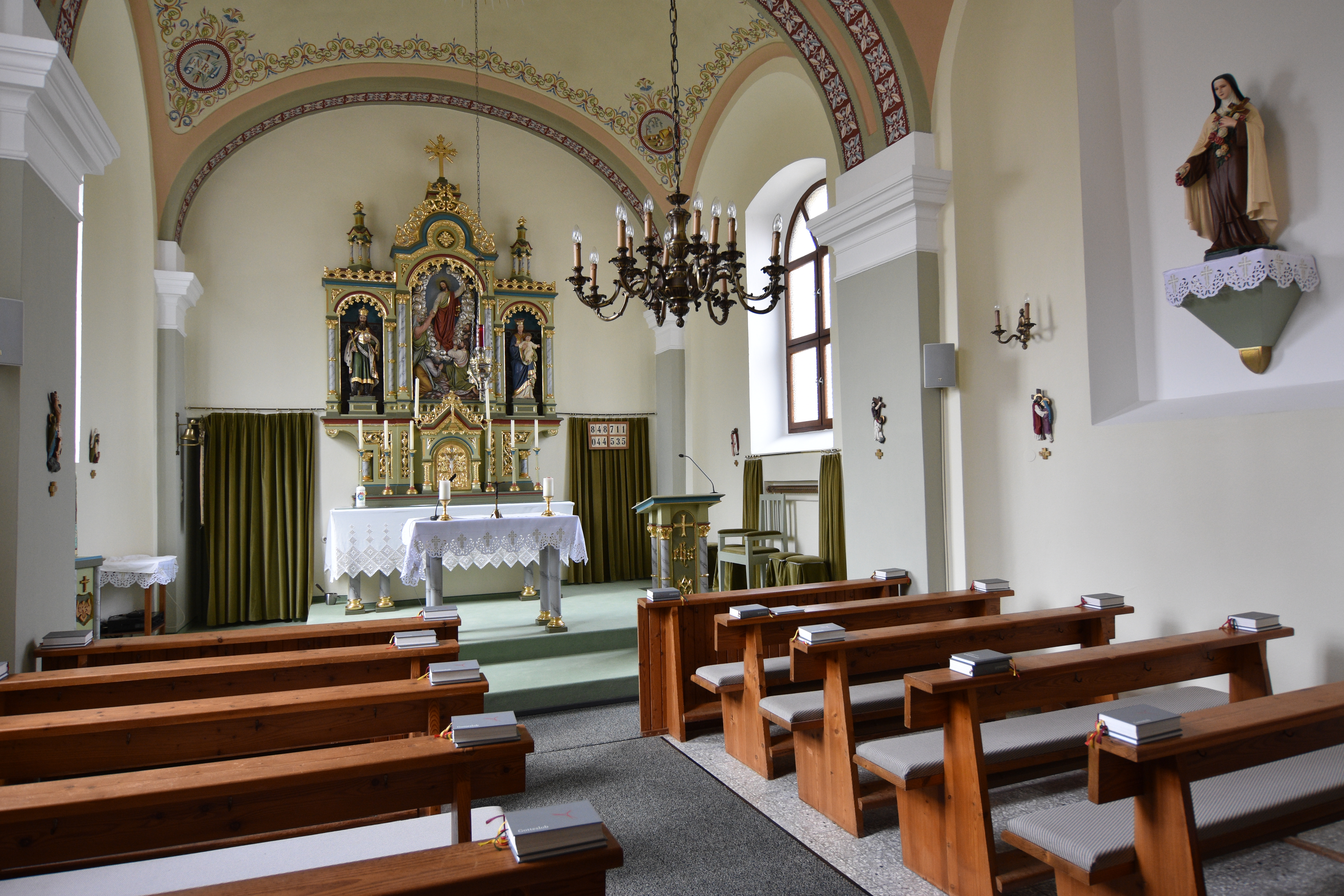 Church Rohrbach an der Teich - Interior